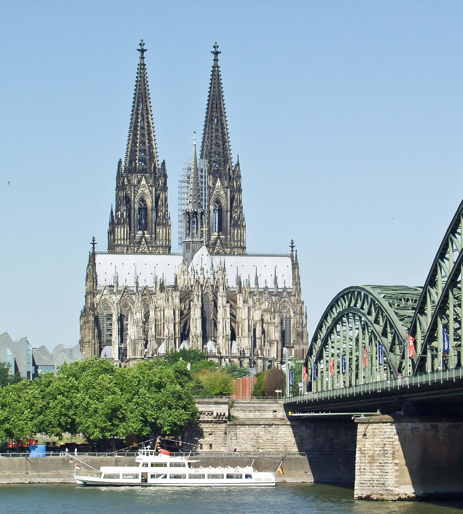 Cologne Cathedral, view from Deutz riverside